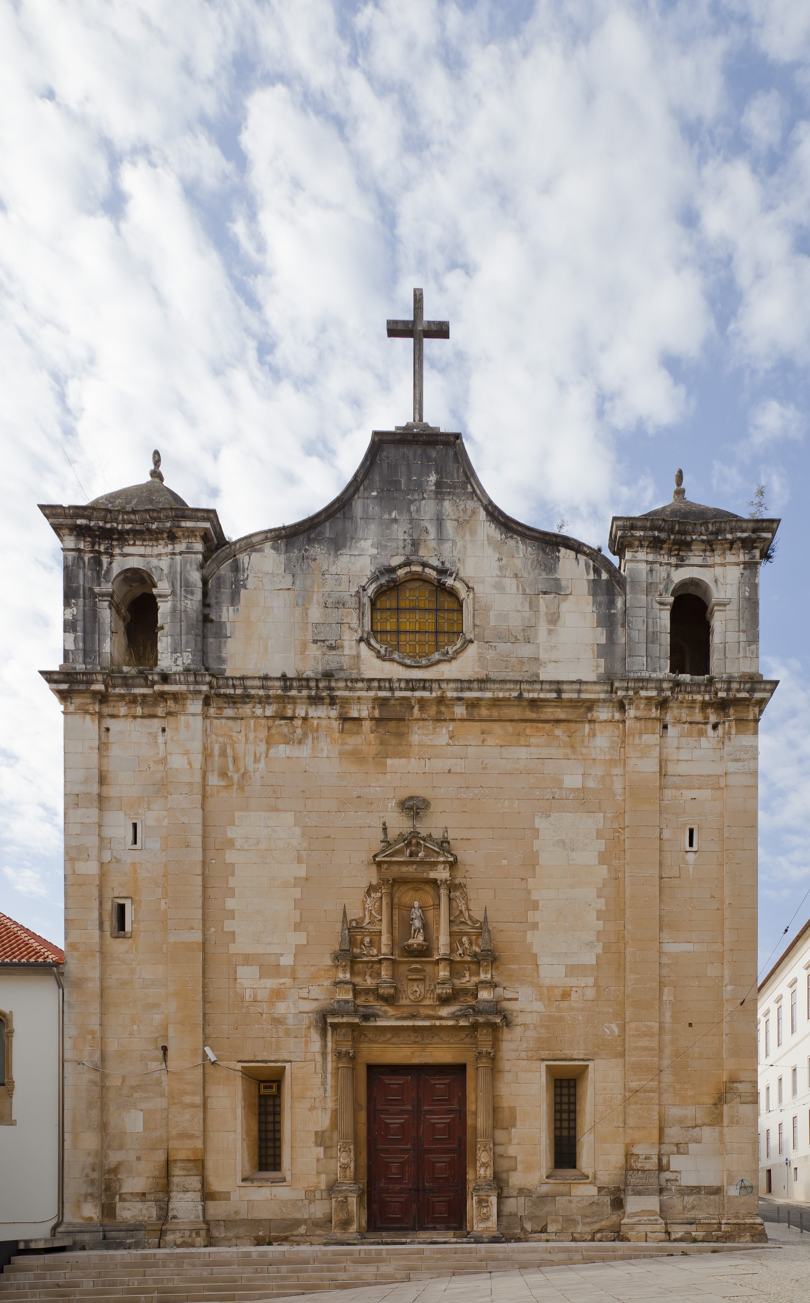 Church of St. John of Almedina, Coimbra, Portugal